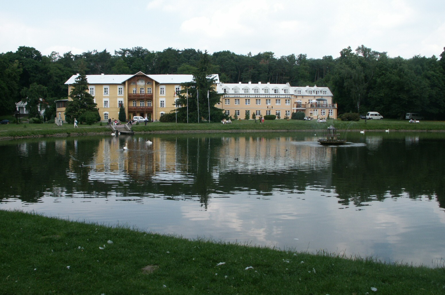 Nałęczów, Poland - Książę Józef spa building and pond in a spa park.